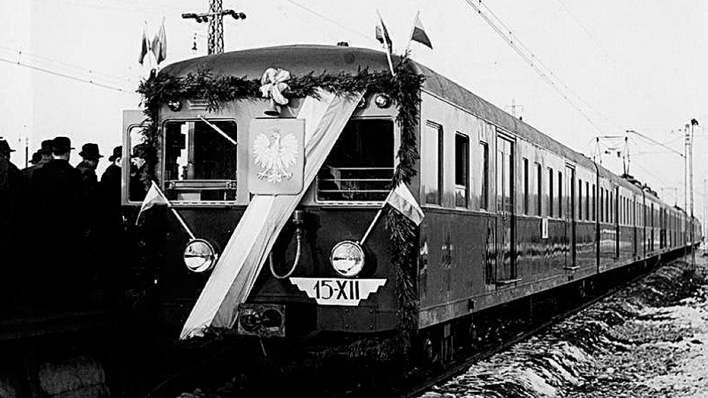 First EMU PKP class EW51 (pre war class 92000) at Józefów Station on Warszawa - Pruszków/Otwock line.